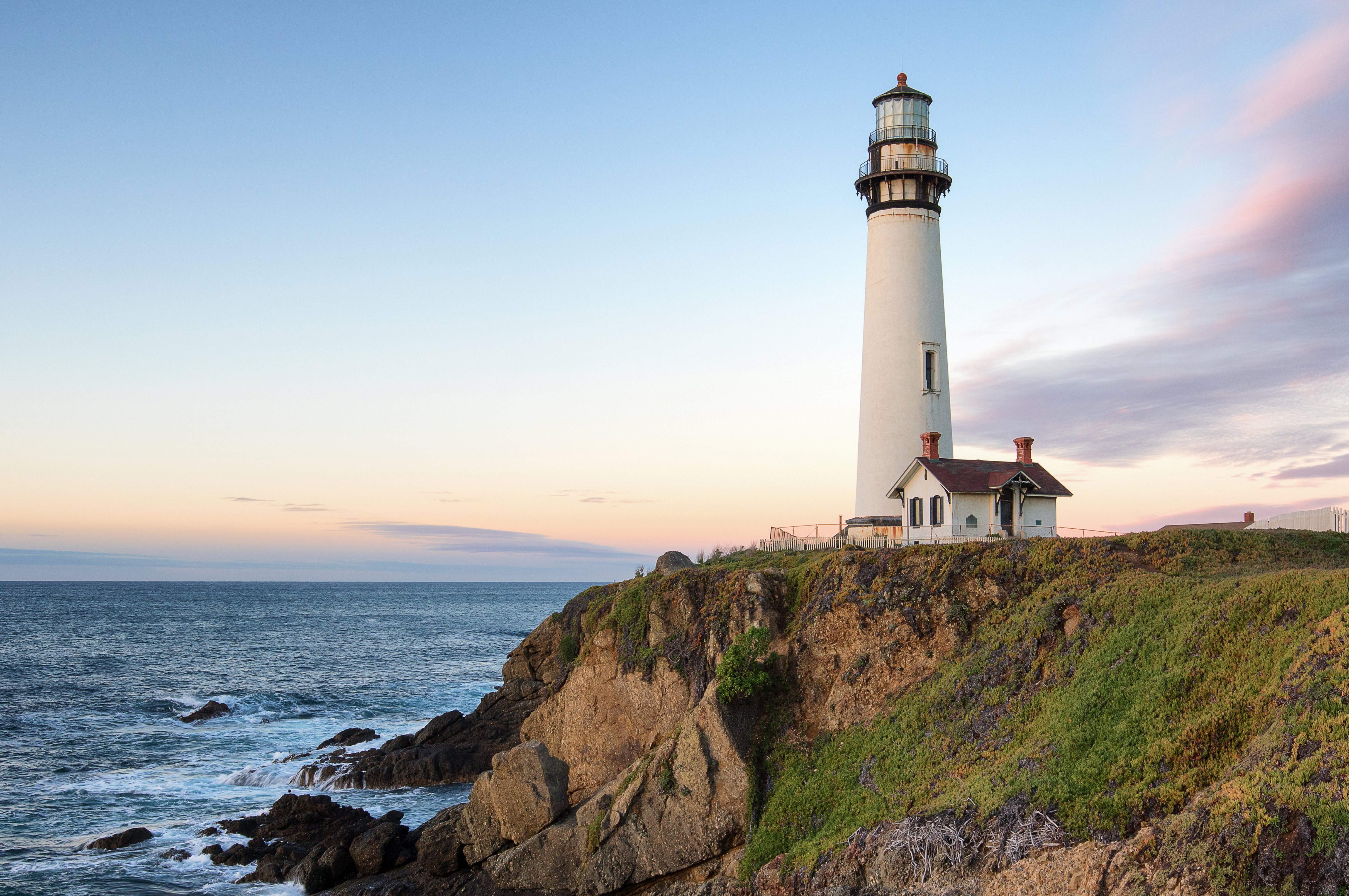 Pigeon Point Lighthouse, Pescadero, California